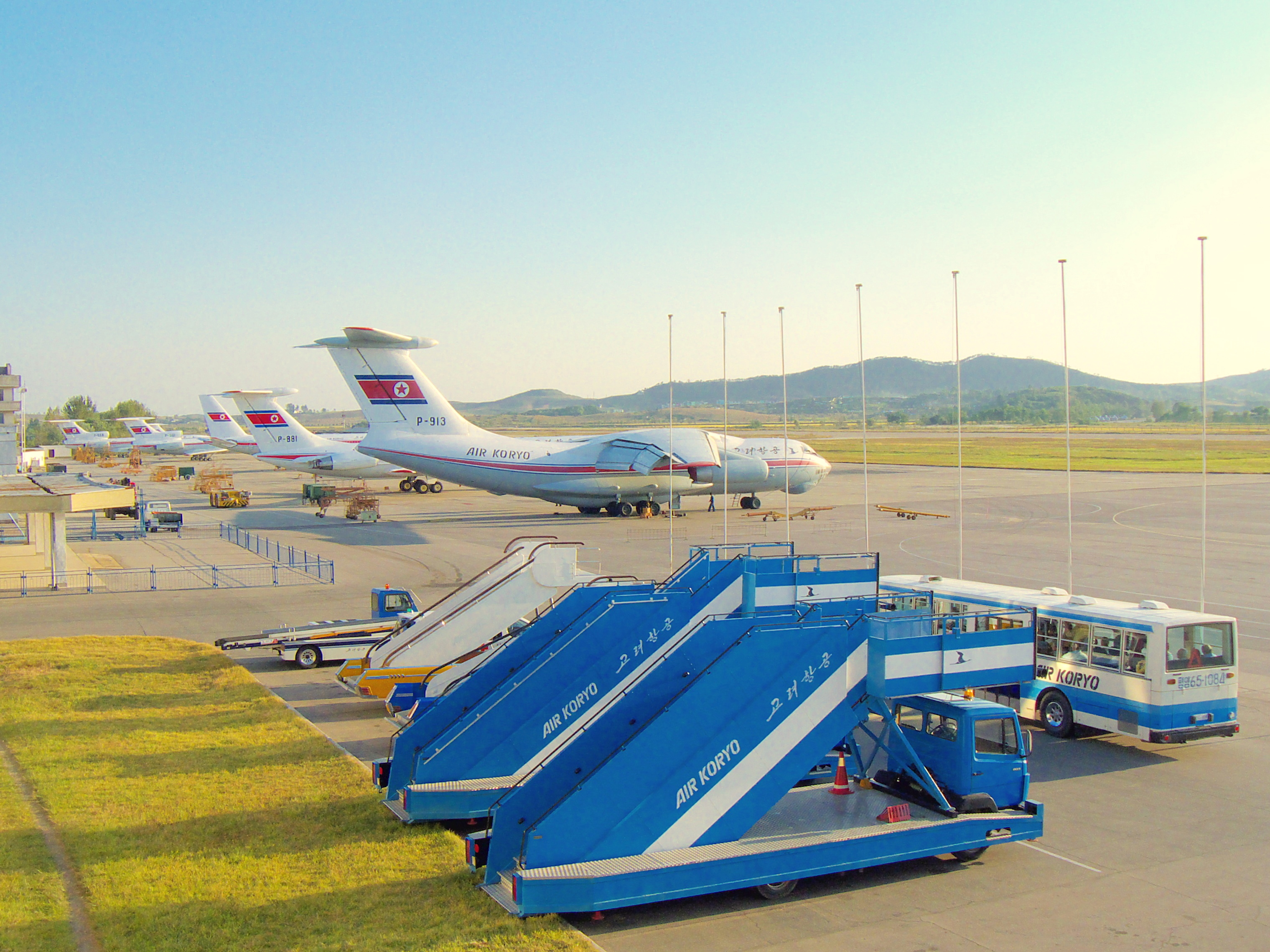 Ilyushin Il-76, Tupolev Tu-204, Ilyushin Il-62, Tupolev Tu-154 of Air Koryo at Sunan International Airport.